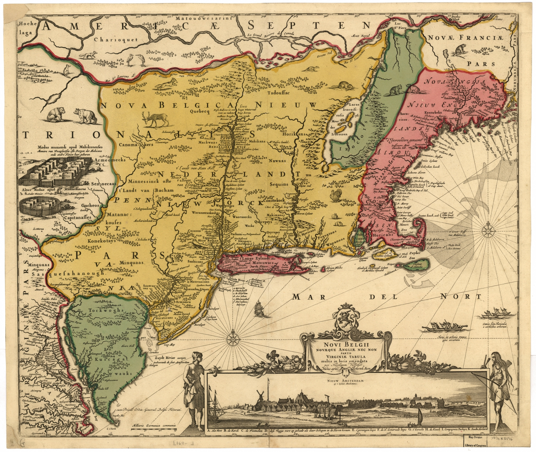 The Jansson-Visscher map of New Netherland, first published in 1650. On the left are illustrations of typical Indian villages, while the lower right inset shows a picture of New Amsterdam. This copy is a later recoloration to reflect later borders with New England. See also Image:Map-Novi Belgii Novæque Angliæ (Amsterdam, 1685).jpg. Legend in